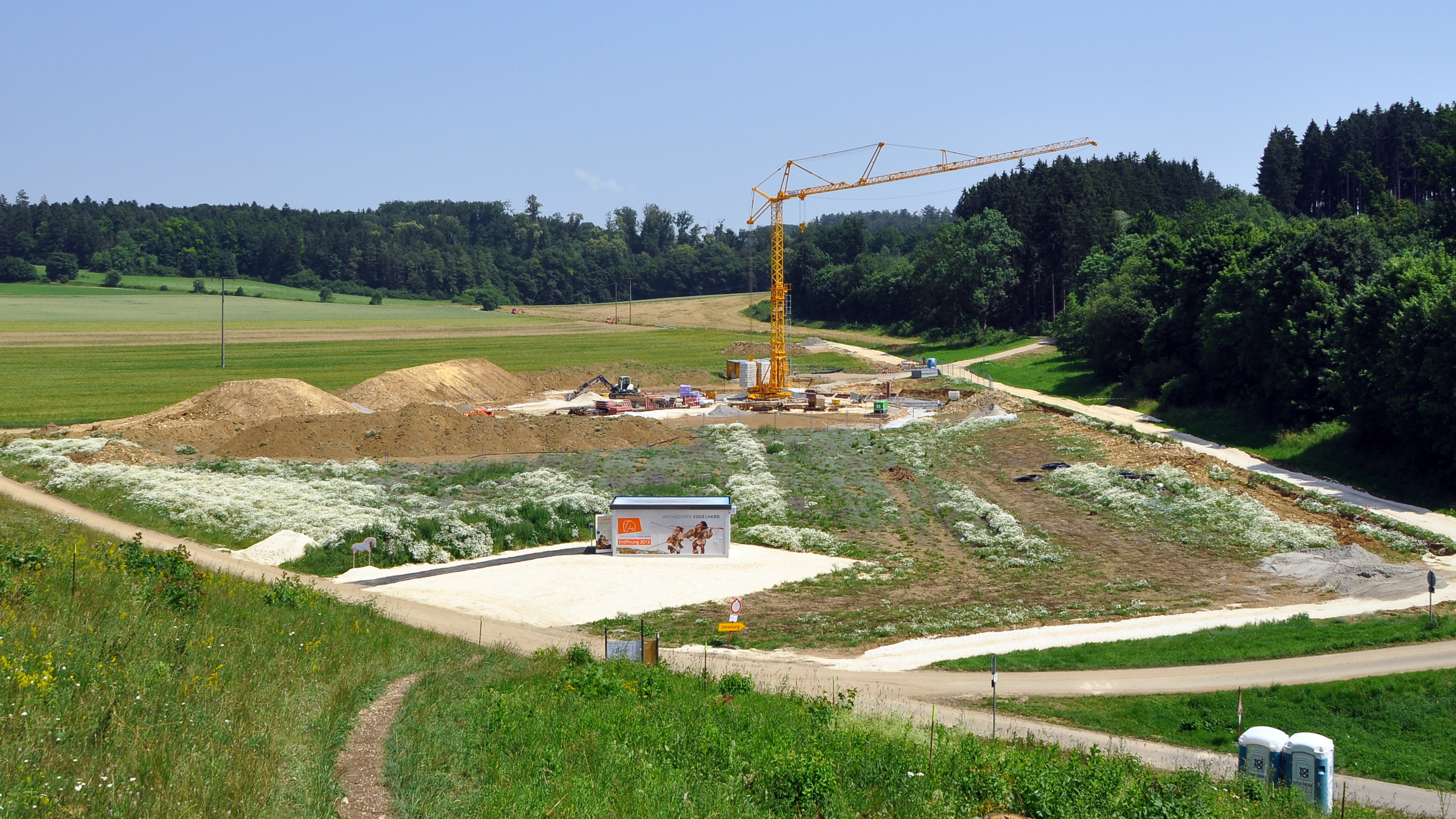 Visitor Information Centre Archeopark Vogelherd under construction at cave Vogelherd near Stetten ob Lontal, Baden-Wuerttemberg, Germany